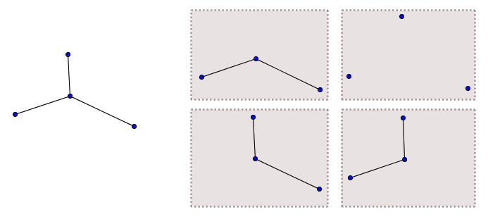 A graph and its deck as described in the Reconstruction_conjecture of graph theory